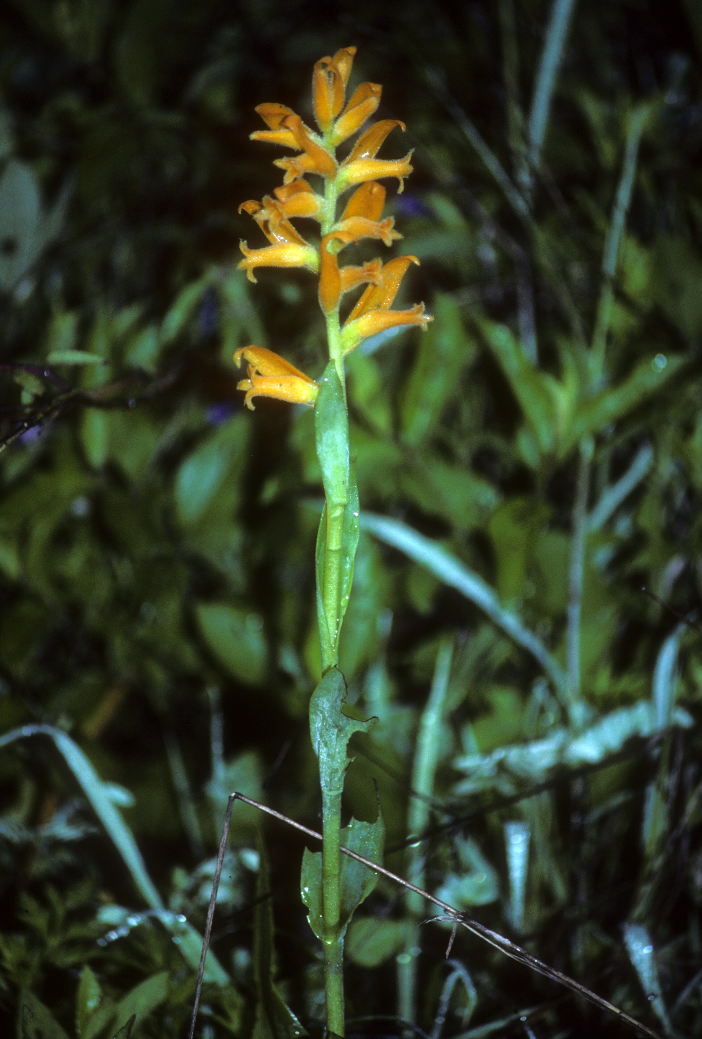 Dichromanthus aurantiacus. Ahuactlan, Nyarit, Mexico. Aug. 1987. This species was formerly in the genus Spiranthes.